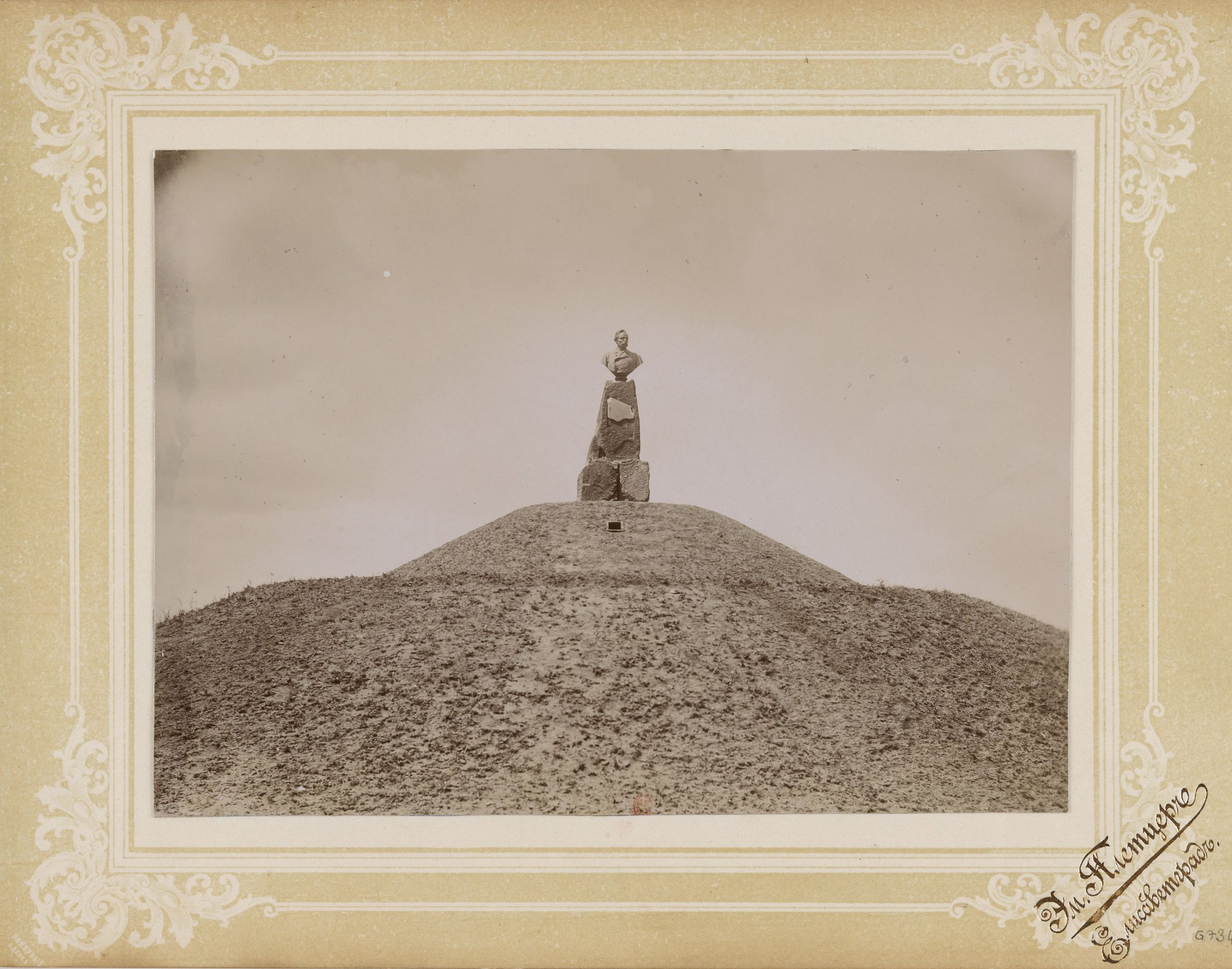 Industrial Revolution in Kryvyi Rih